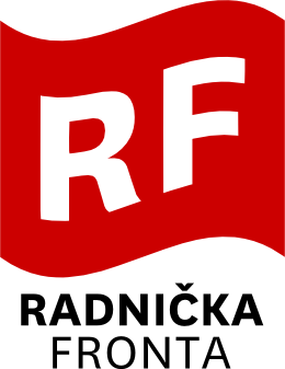 RR_logo_official